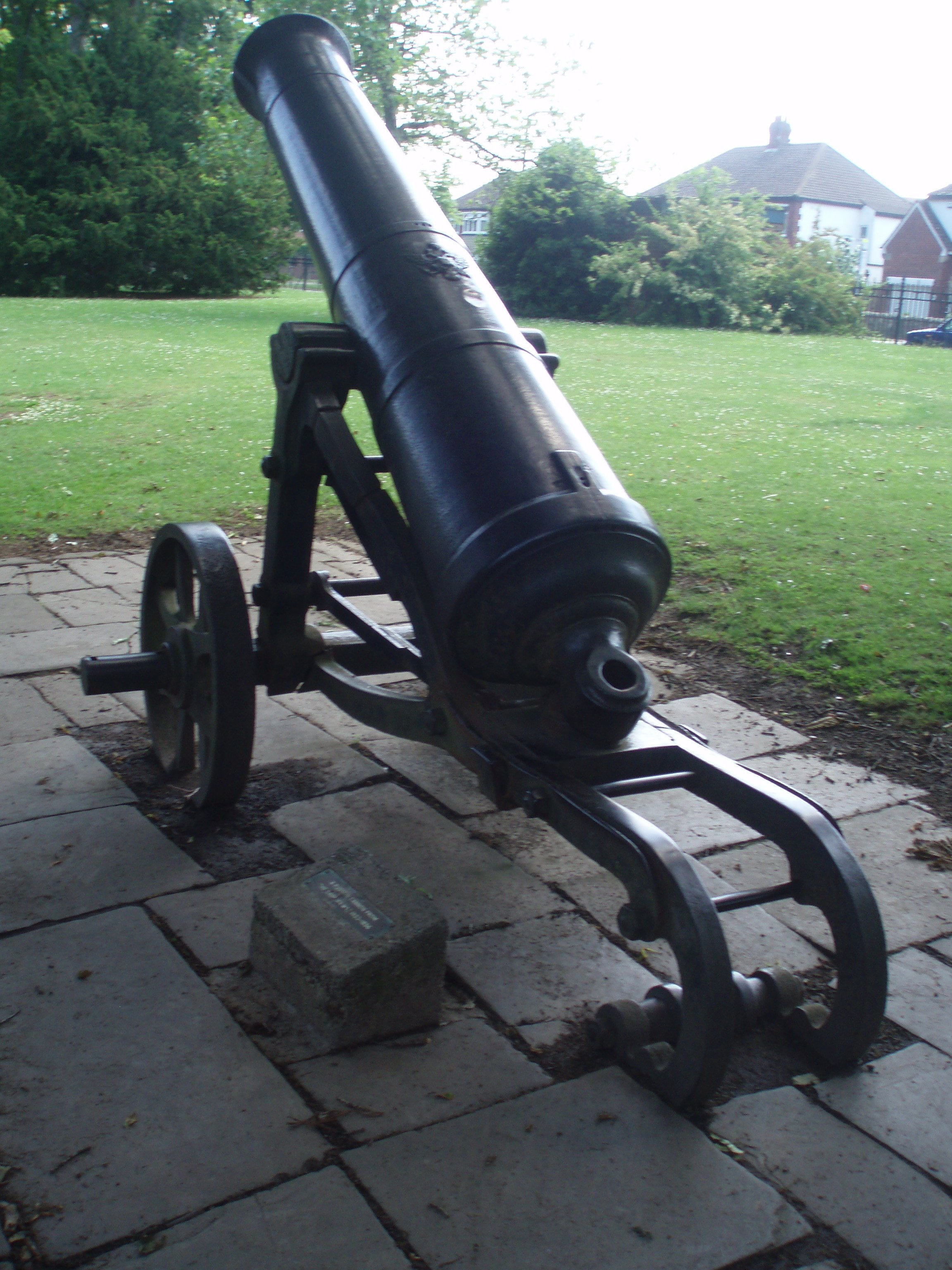 Russian gun captured during the Crimean War, South Park, Darlington